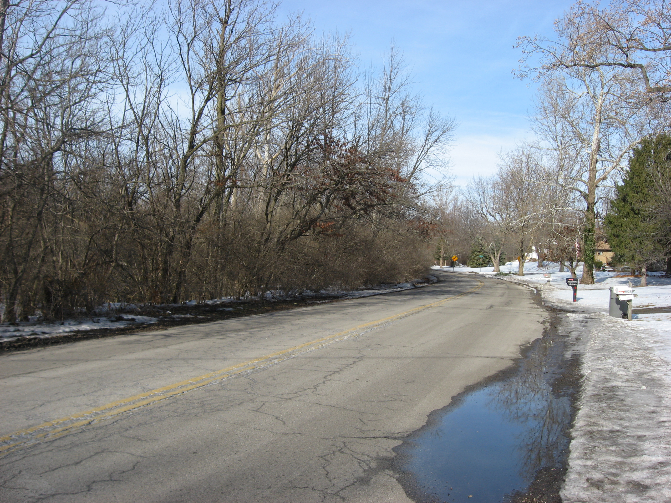 Looking north E. Pleasant Run Parkway South Drive from its intersection with Sixteenth Street in Indianapolis, Indiana, United States. This portion of Pleasant Run Parkway is part of the Indianapolis Park and Boulevard System, a historic district that is listed on the National Register of Historic Places.